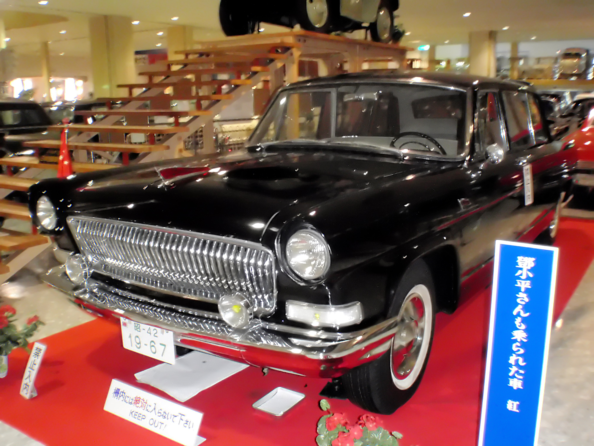 Hongqi 1967 Limousine